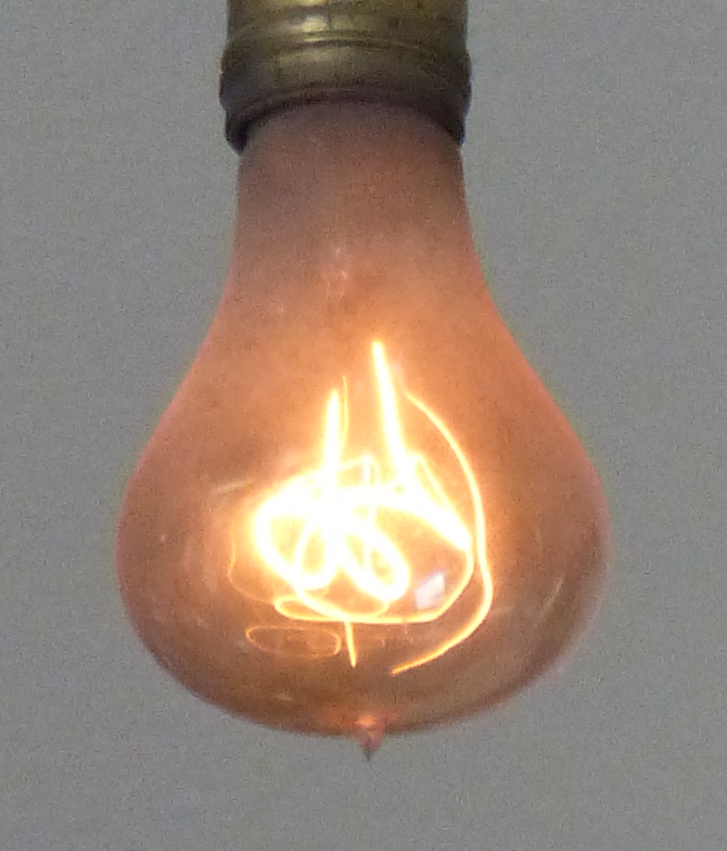 A photo of the Centennial Light Bulb in Livermore, California in 2016.